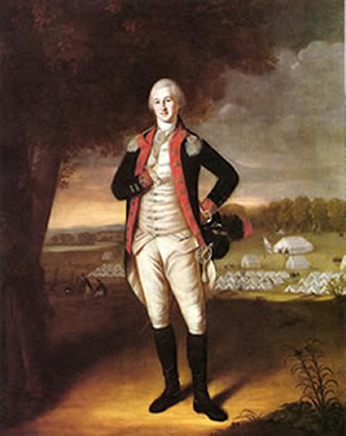 Full-length portrait of Colonel Walter Stewart of the 2nd Pennsylvania Regiment painted by Charles Willson Peale around 1781.